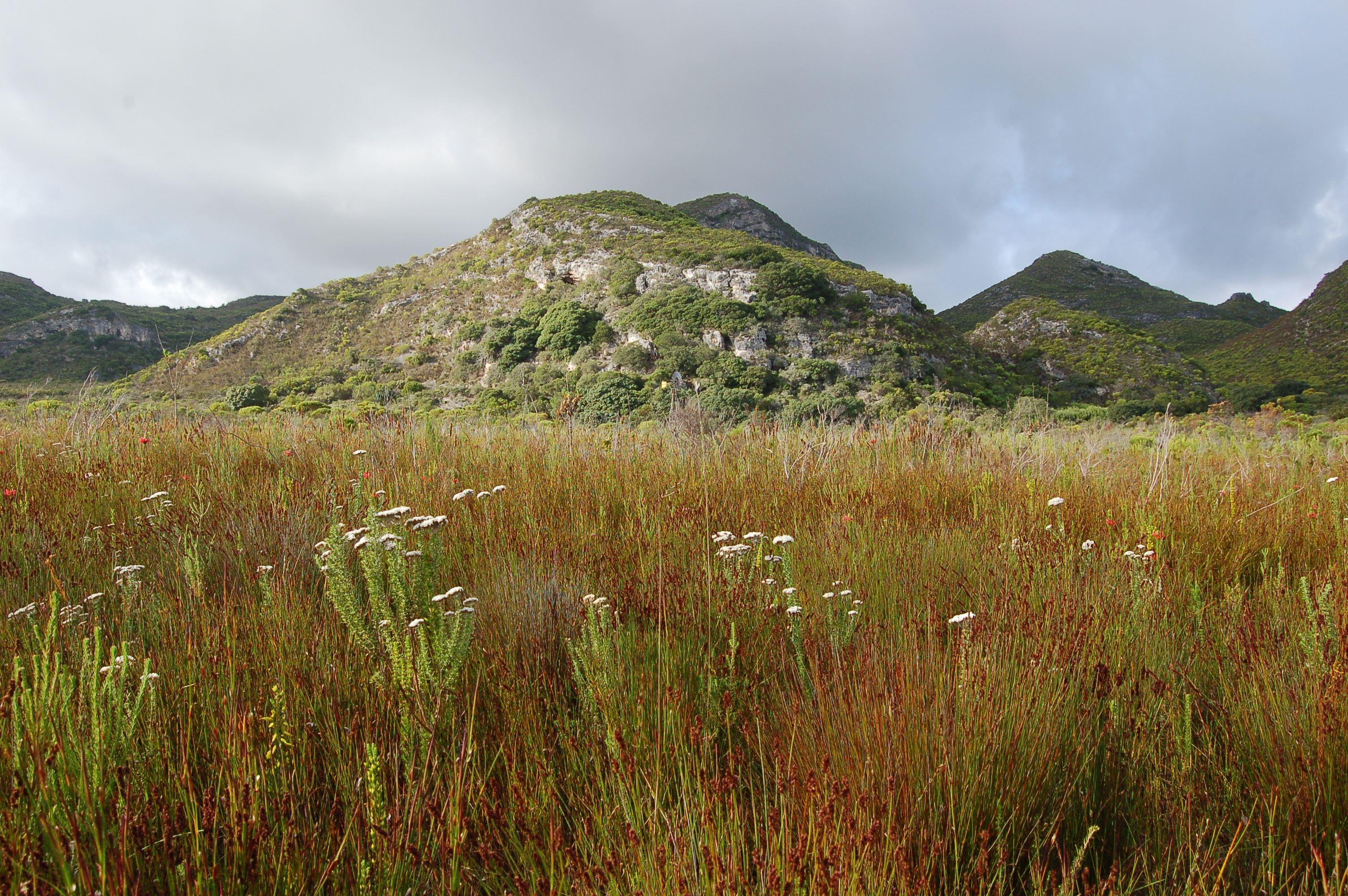 Western Cape fynbos, South Africa